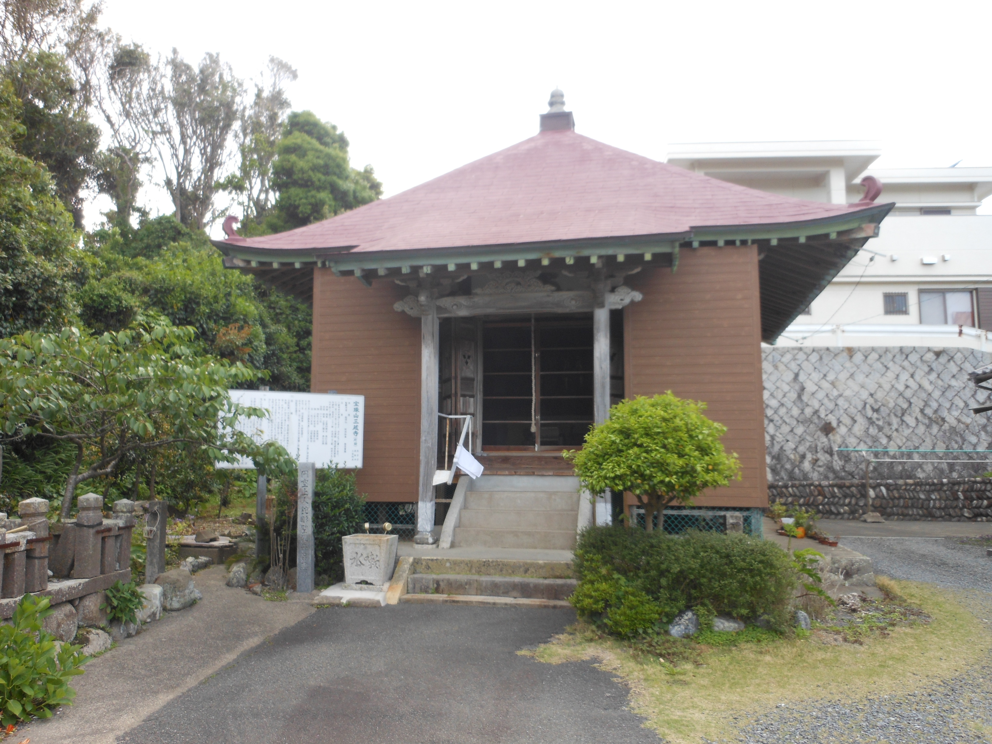 This is the Sanzo-ji temple which is located in Shimacho-Katada, Shima, Mie, Japan.